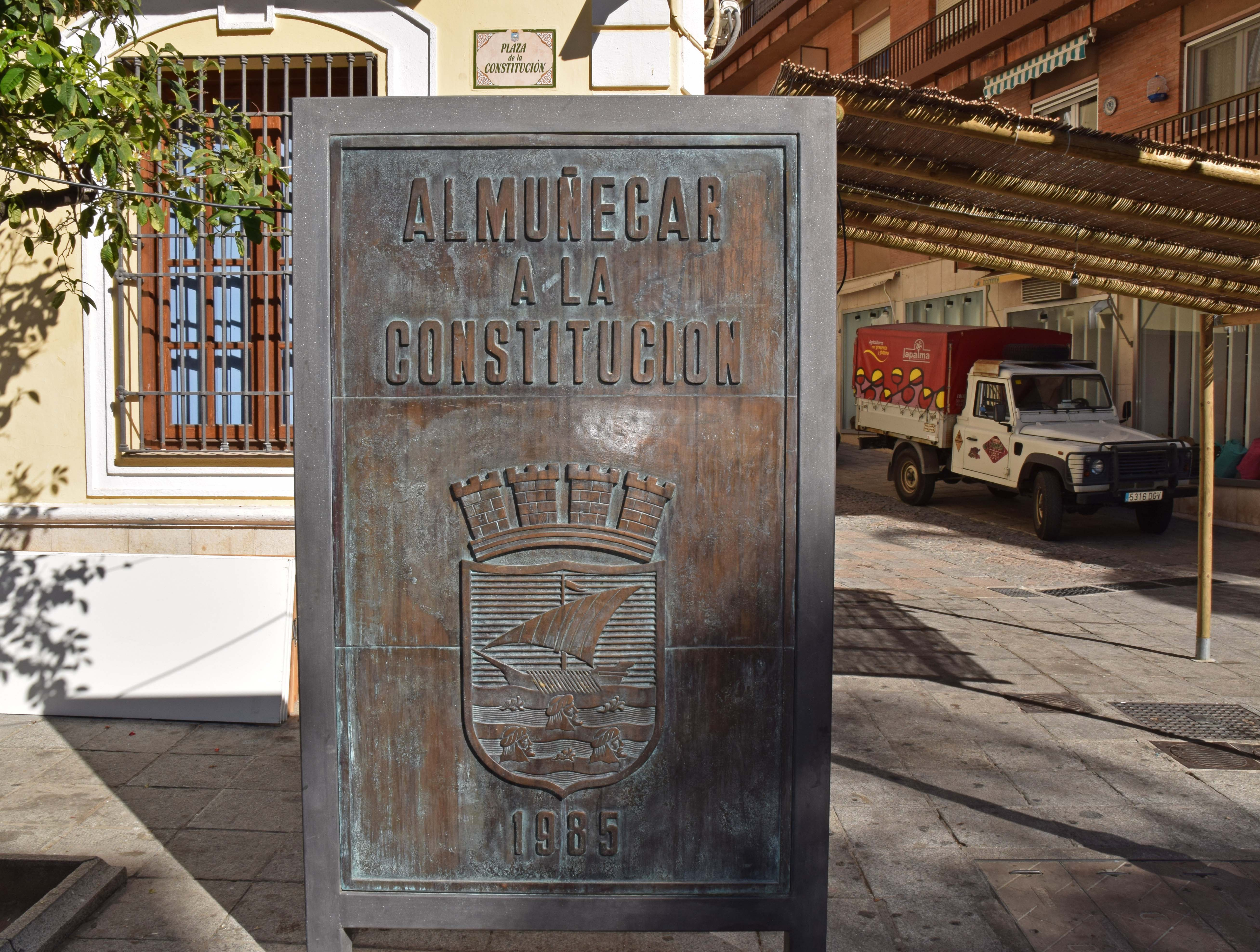 Coat of arms Almuñécar, outside the town hall at Plaza de la Constitution